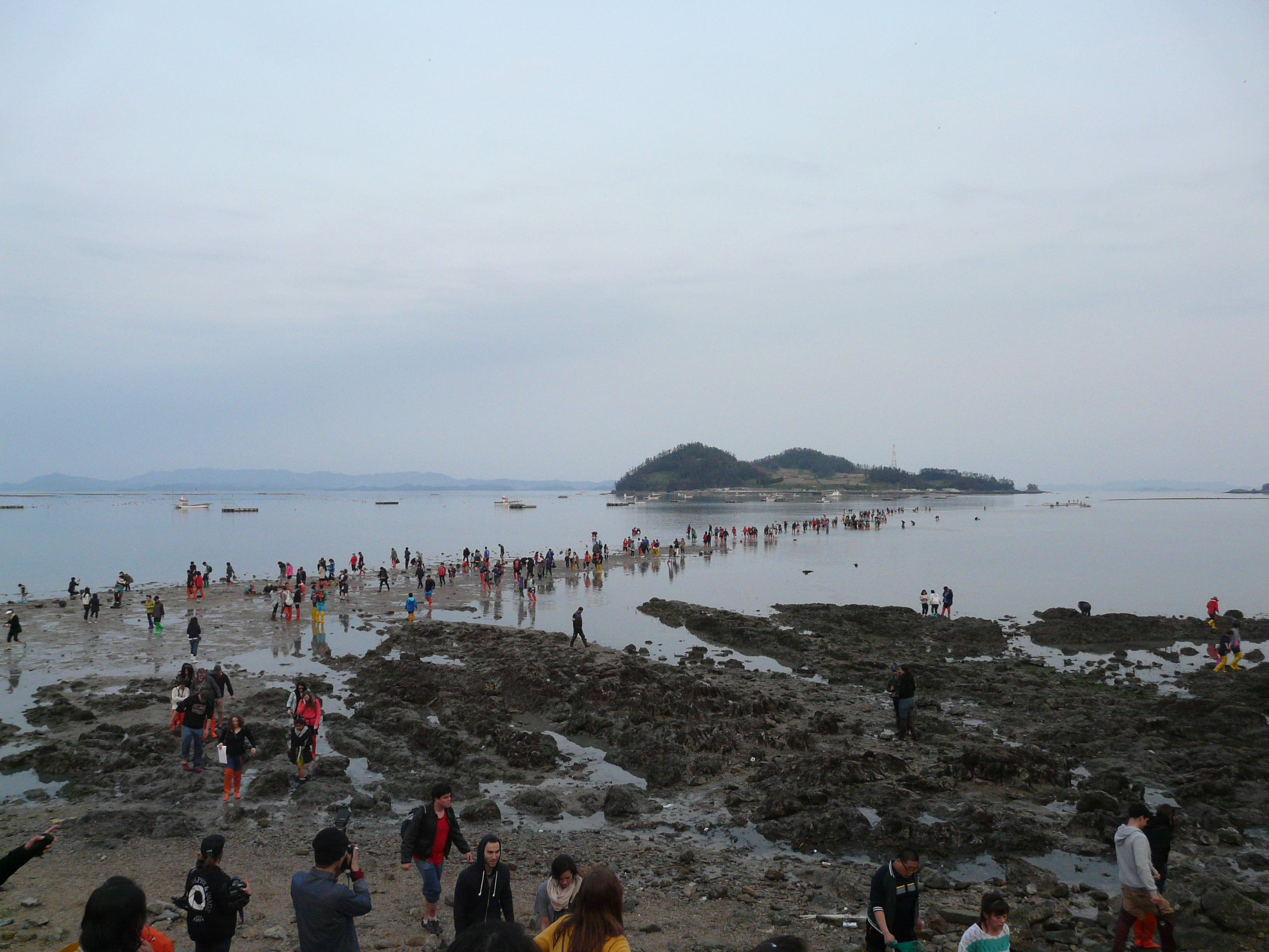 Photos from the Jindo Miracle Sea Road Festival, Korea.